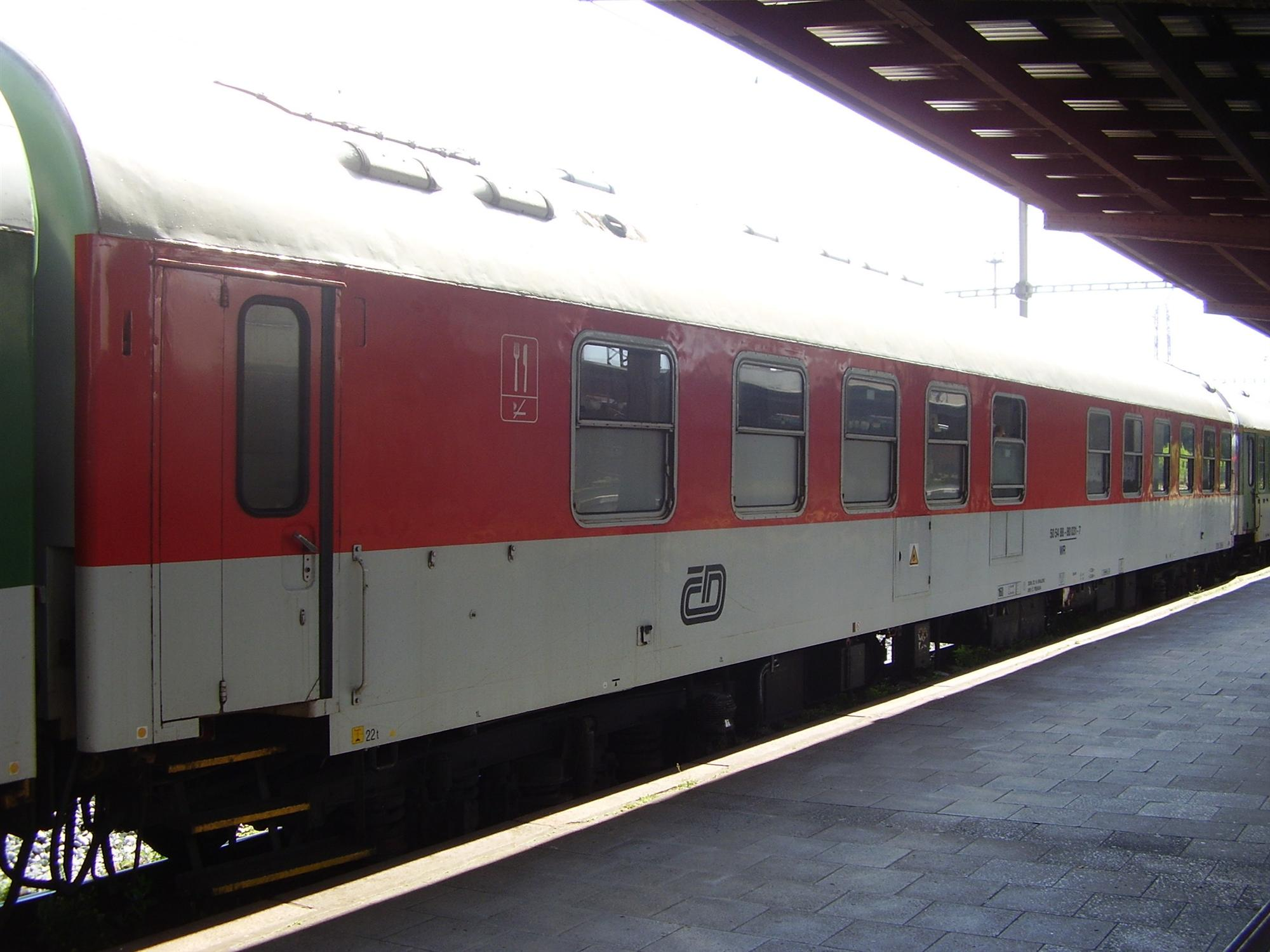 Rail car WR in station Kolín